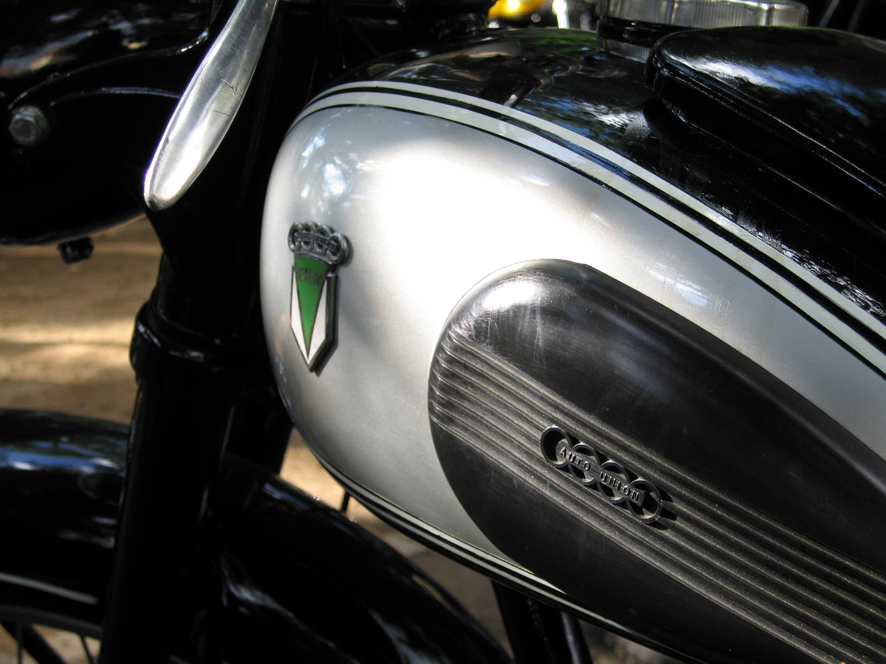 Auto Union